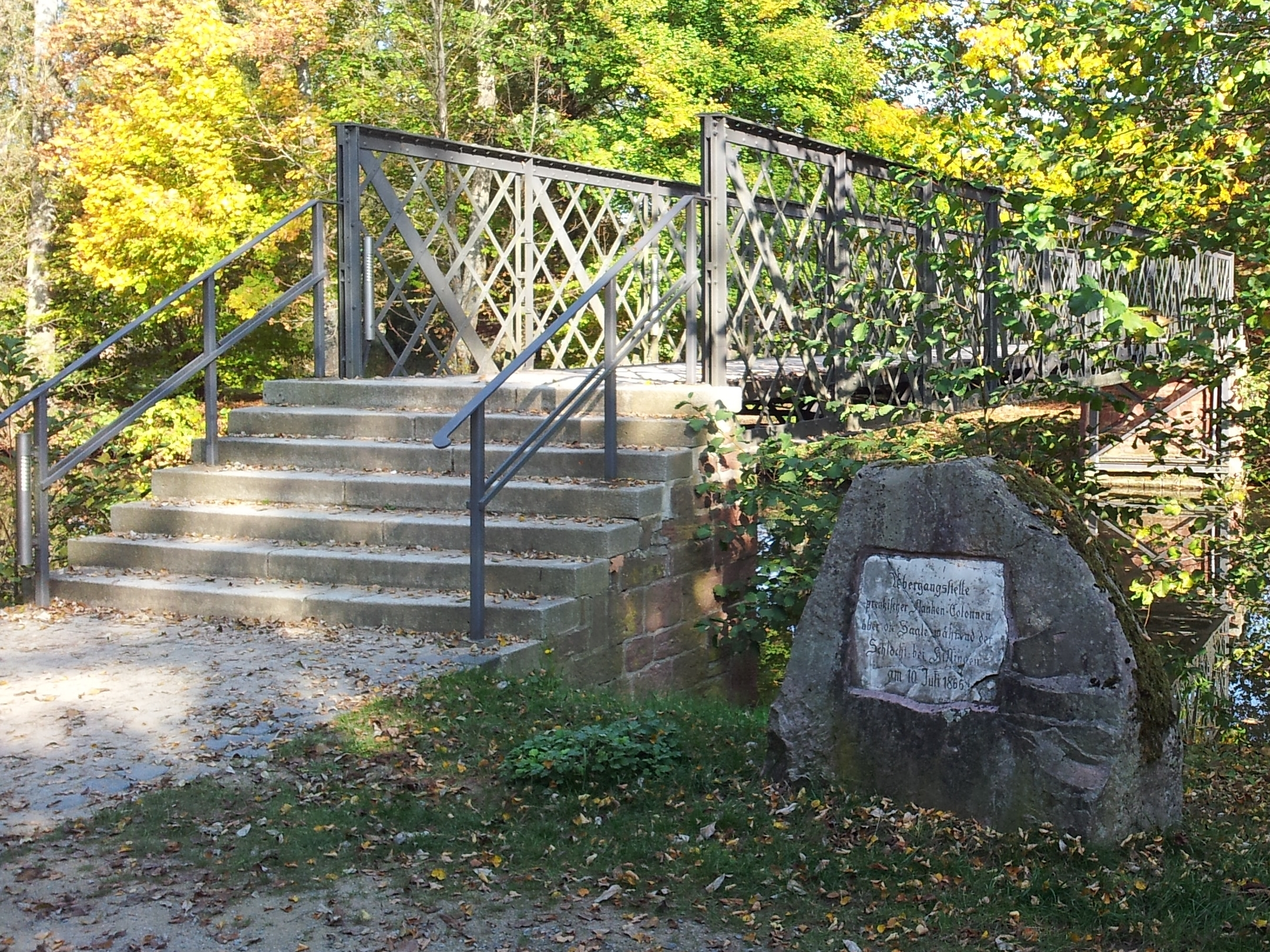 "Preußensteg", a footbridge near Bad Kissingen where the Prussian troops succeeded in crossing the river "Fränkische Saale" (Franconian Saale) during the battle of Kissingen, 10 July 1866